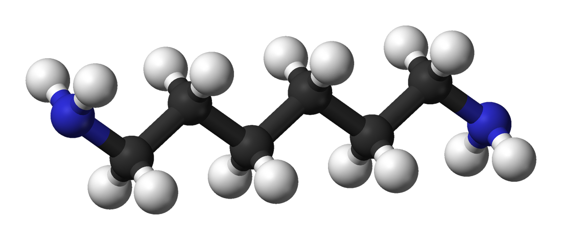 Ball-and-stick model of a molecule of the chemical compound 1,6-Diaminohexane (Hexamethylenediamine).